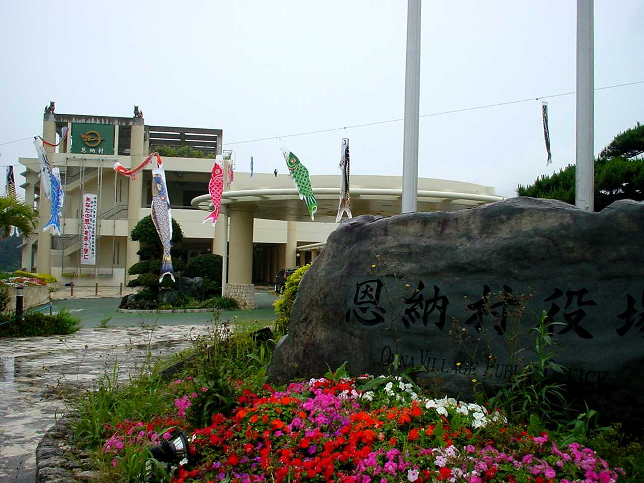 Onna Town Office in Okinawa, Japan